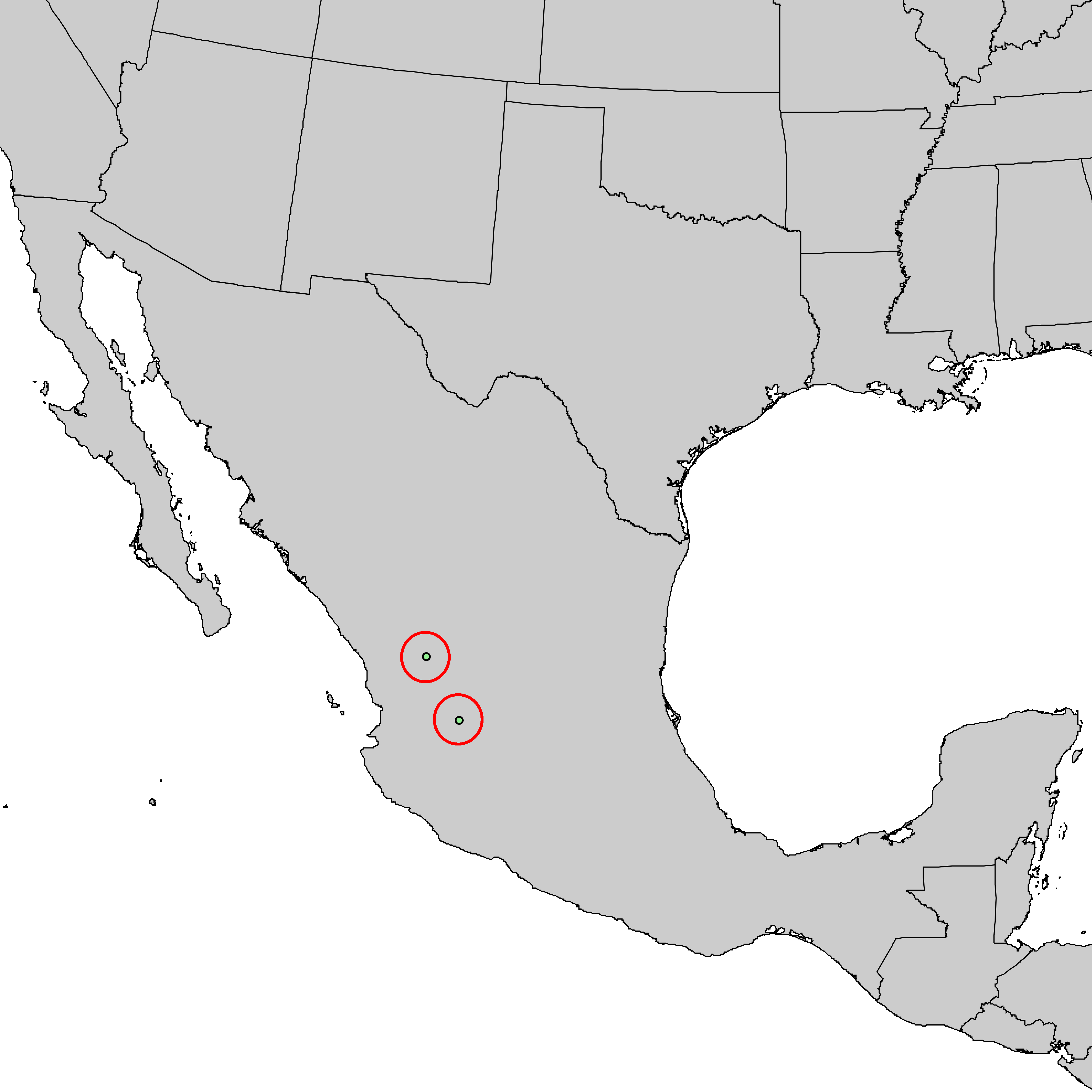 Natural distribution map for Pinus maximartinezii